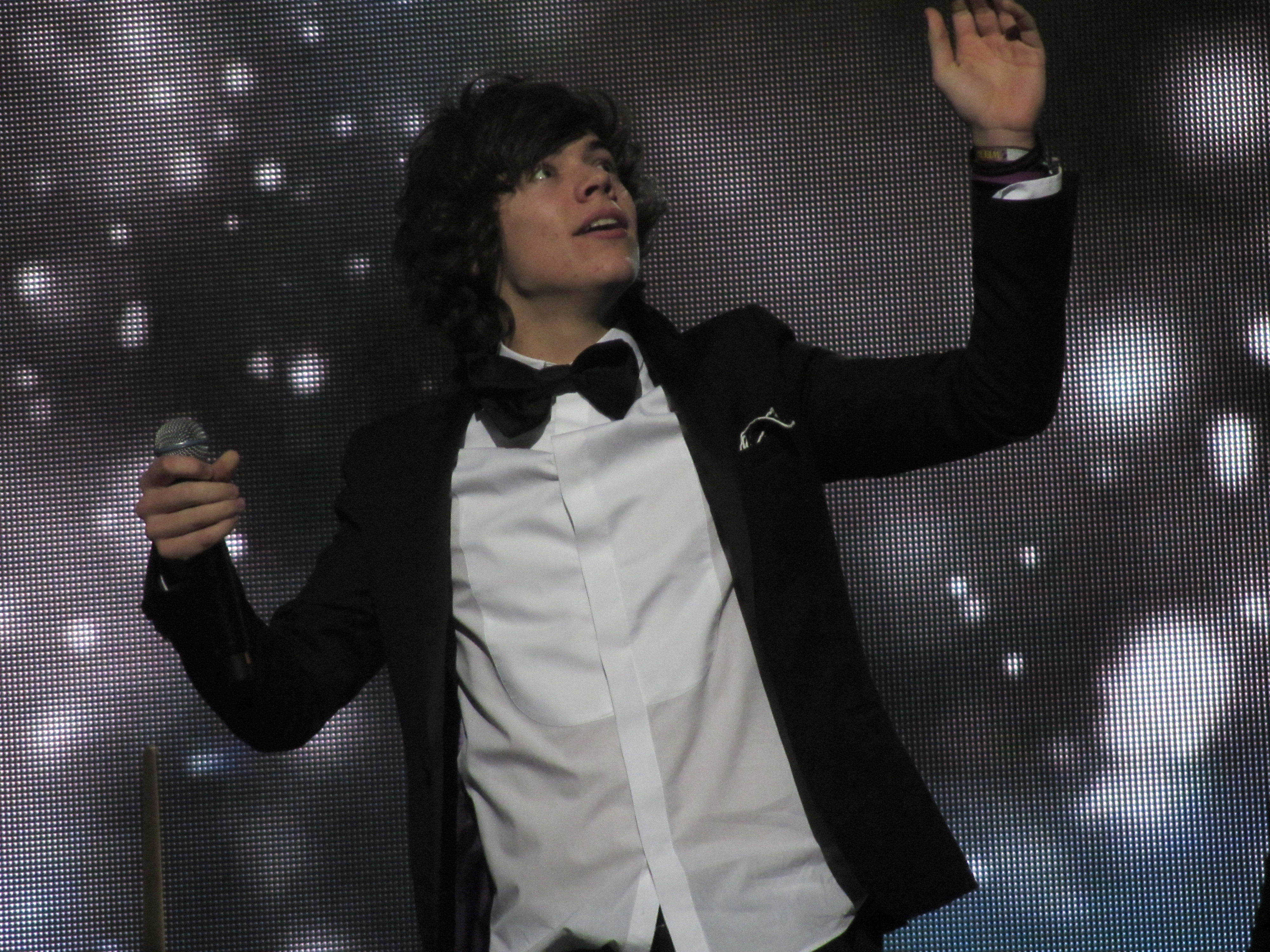 Harry Styles, One Direction, Clyde Auditorium, Glasgow, Saturday 14 January 2012